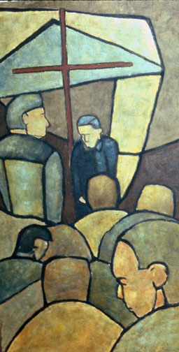 FIELD SERVICE, Oil (unfinished), by James Pollock, CAT IV, 1967, Courtesy of the National Museum of the U.S. Army